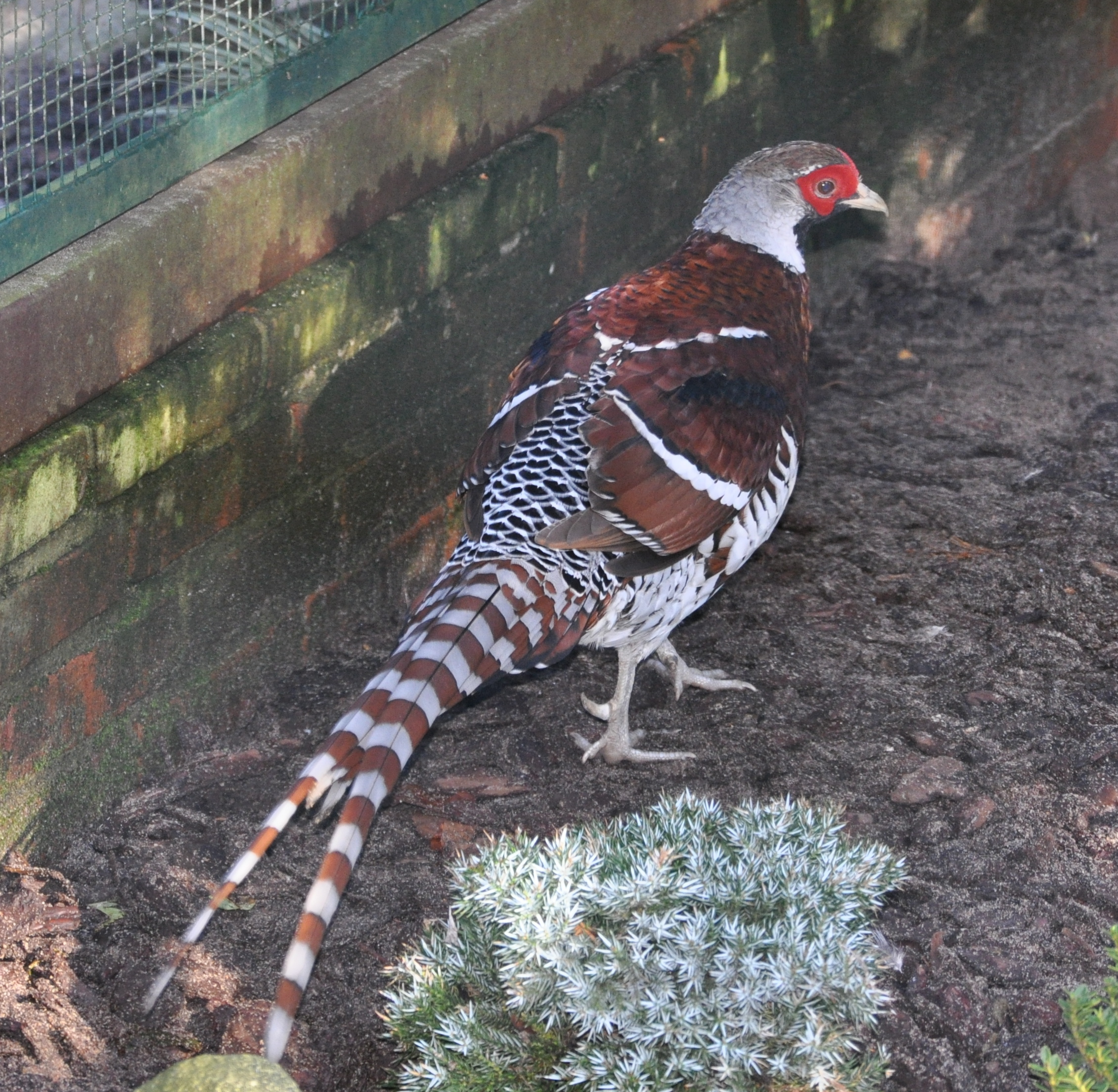 Elliot's Pheasant (Syrmaticus ellioti) in the Walsrode Bird Park, Germany.